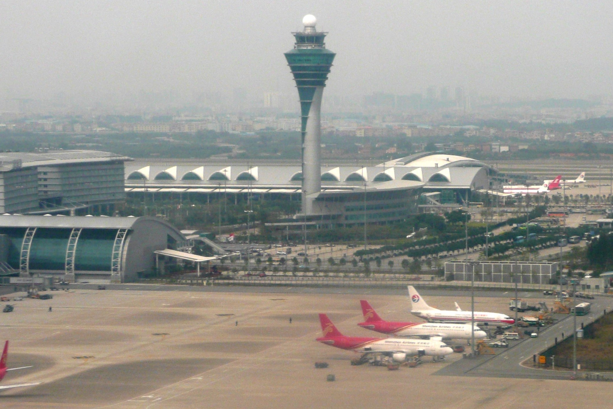 The revise version of original picture is called“Baiyun Airport Guangzhou.jpg”Description of revise：Picture’s horizontal and size